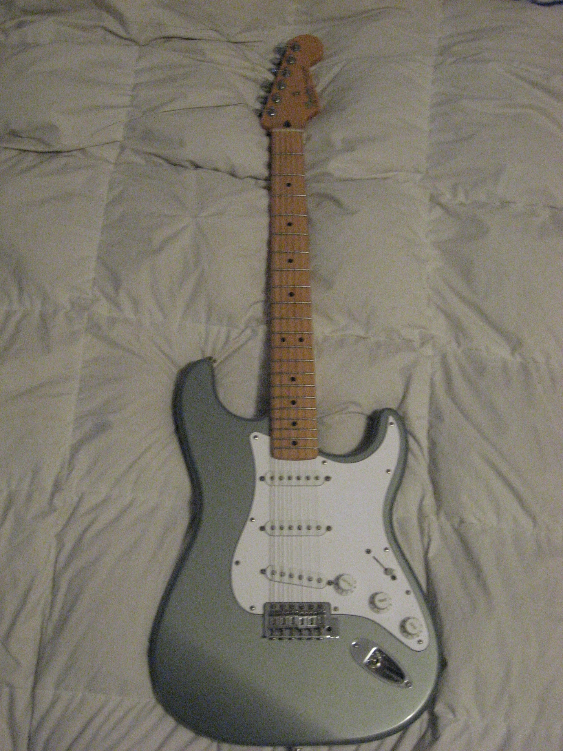 This is a photo of a Fender Stratocaster, 2002 model.